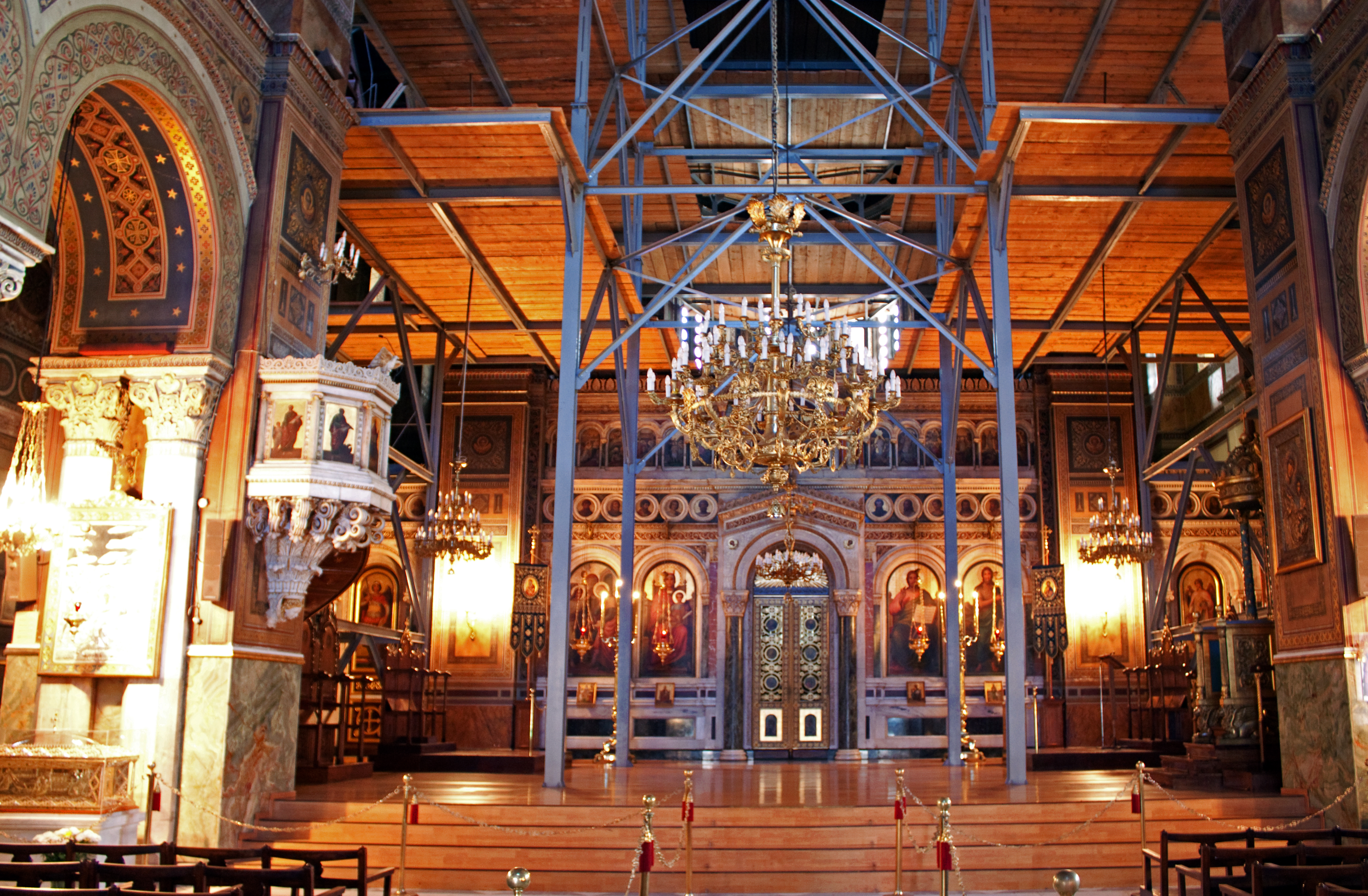 Interior of the Metropolis of Athens, Greece looking from west to east.